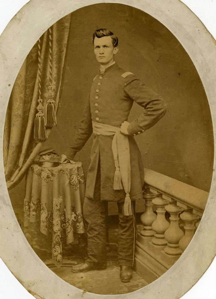 Erasmus Gilbreath in uniform, 1860's